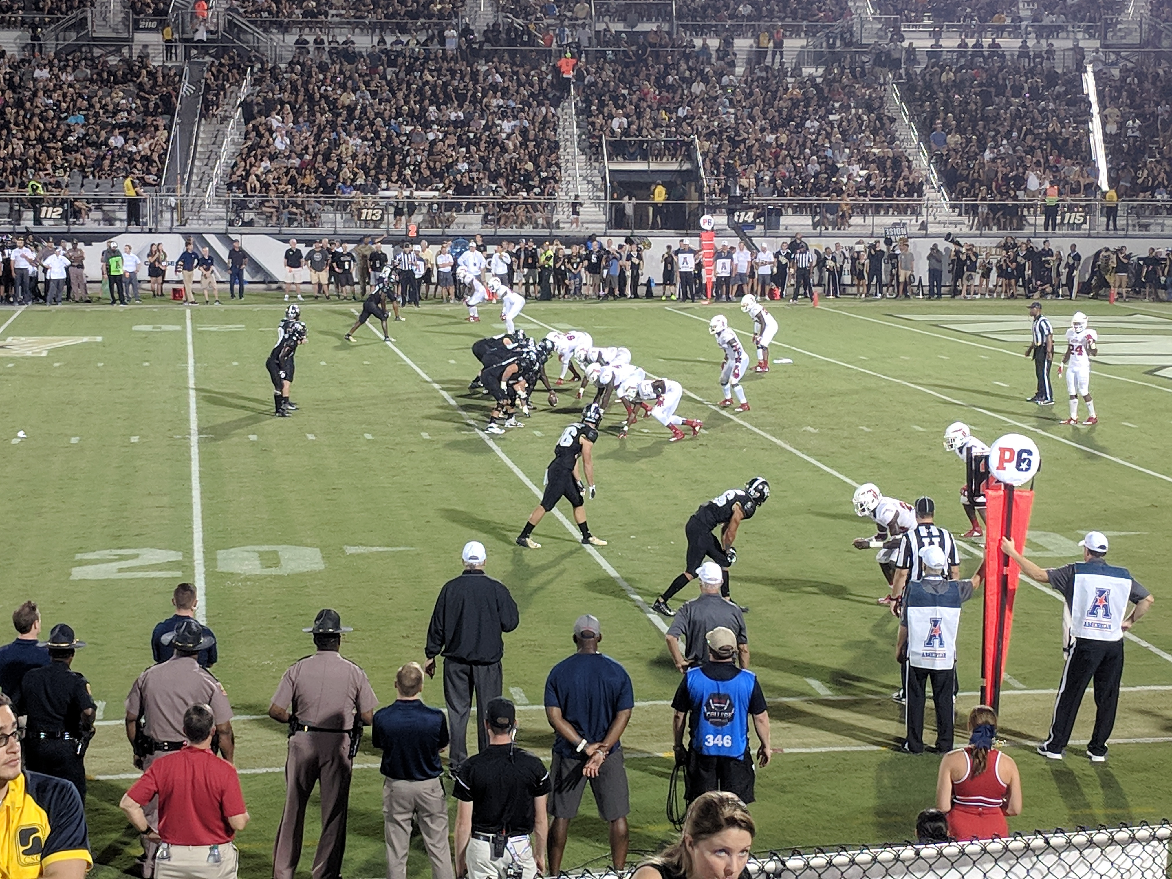 McKenzie Milton runs for 13 yards for the touchdown, putting the Knights up 35-17 against FAU.